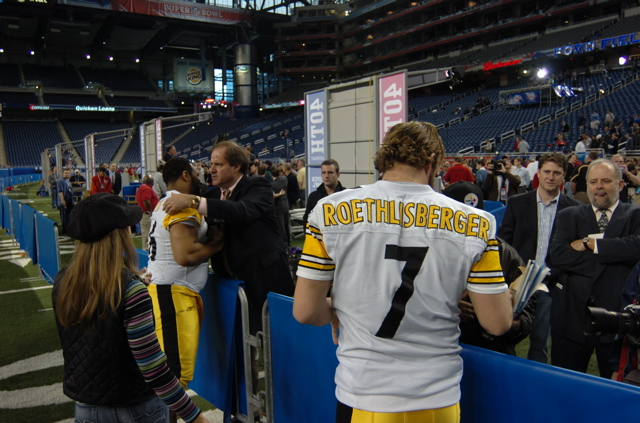 Ben Roethlisberger signs autographs in the foreground, as Jerome Bettis speaks with sportscaster Chris Berman at Super Bowl XL media day.